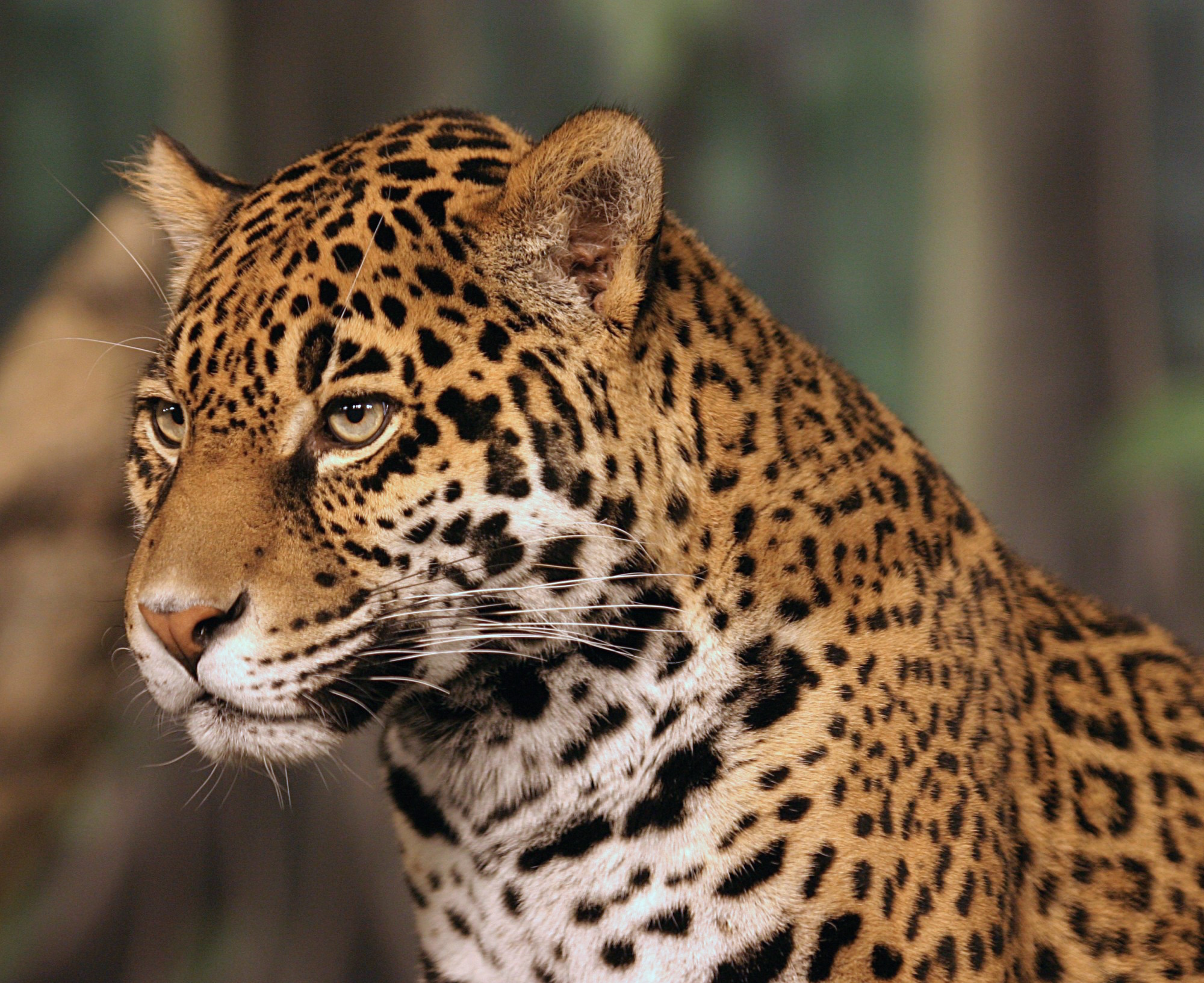 A portrait of a jaguar (Panthera onca) at the Milwaukee County Zoological Gardens in Milwaukee, Wisconsin.